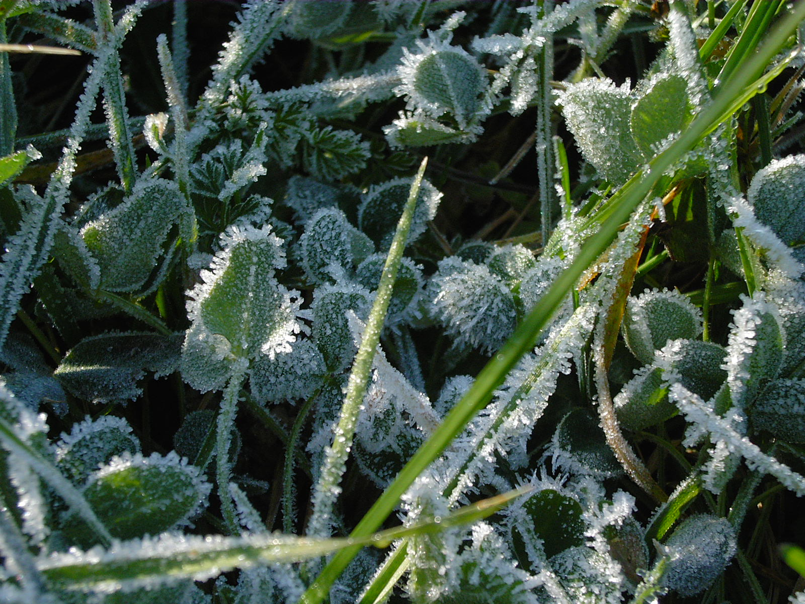 Leaves with rime ice after a freezing night.